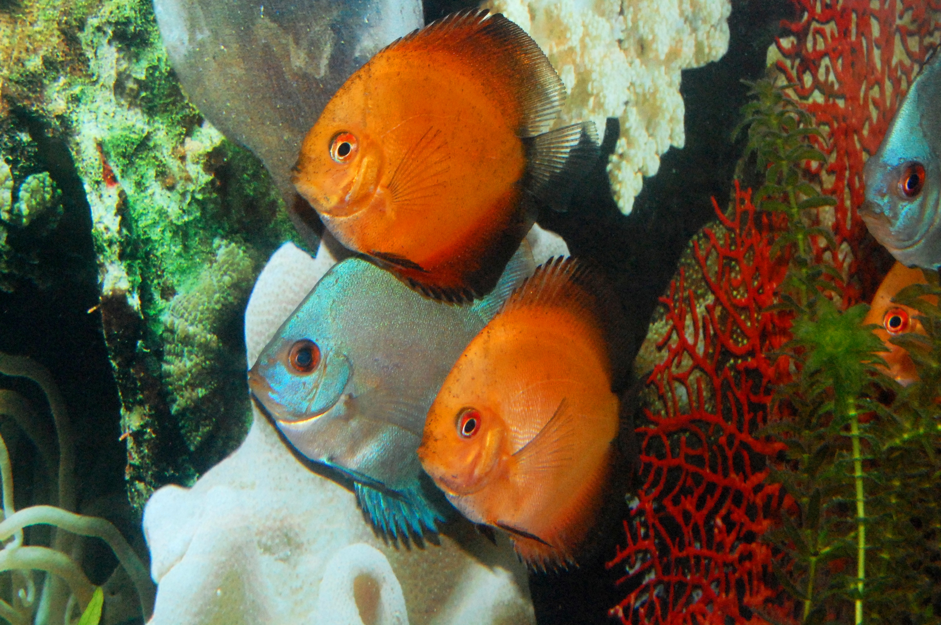 Symphysodon aequifasciatus in my home aquarium.